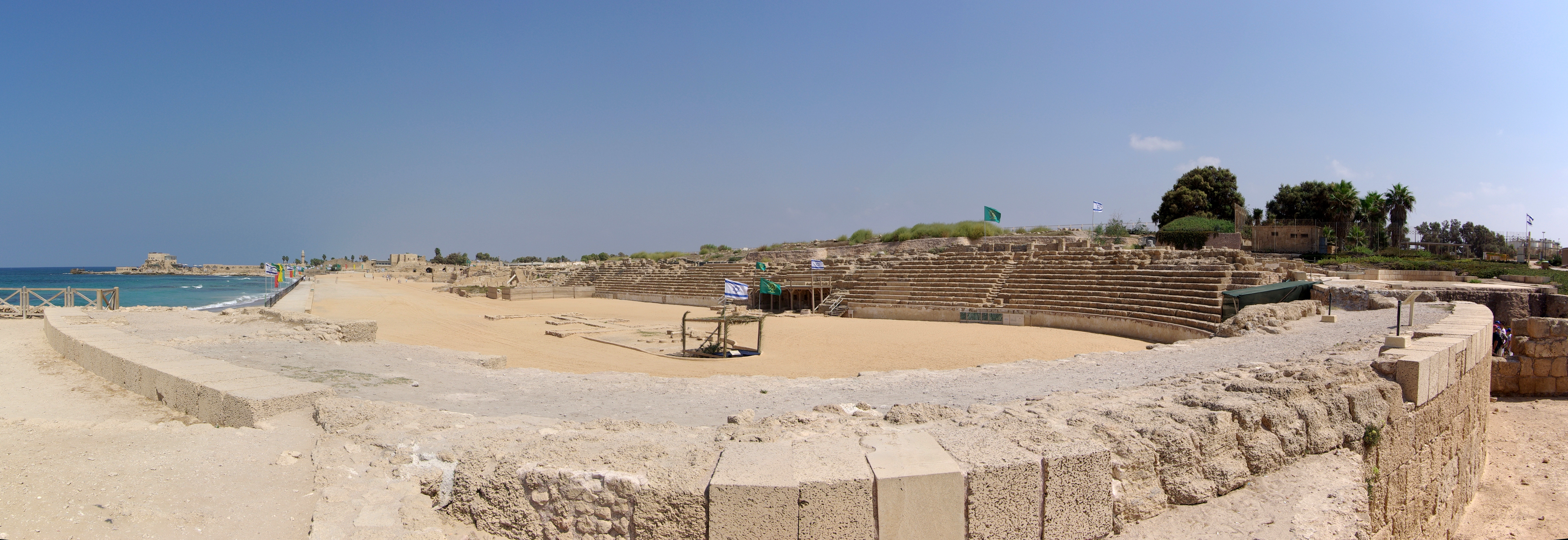 Caesarea maritima, Amphitheatre of Herod